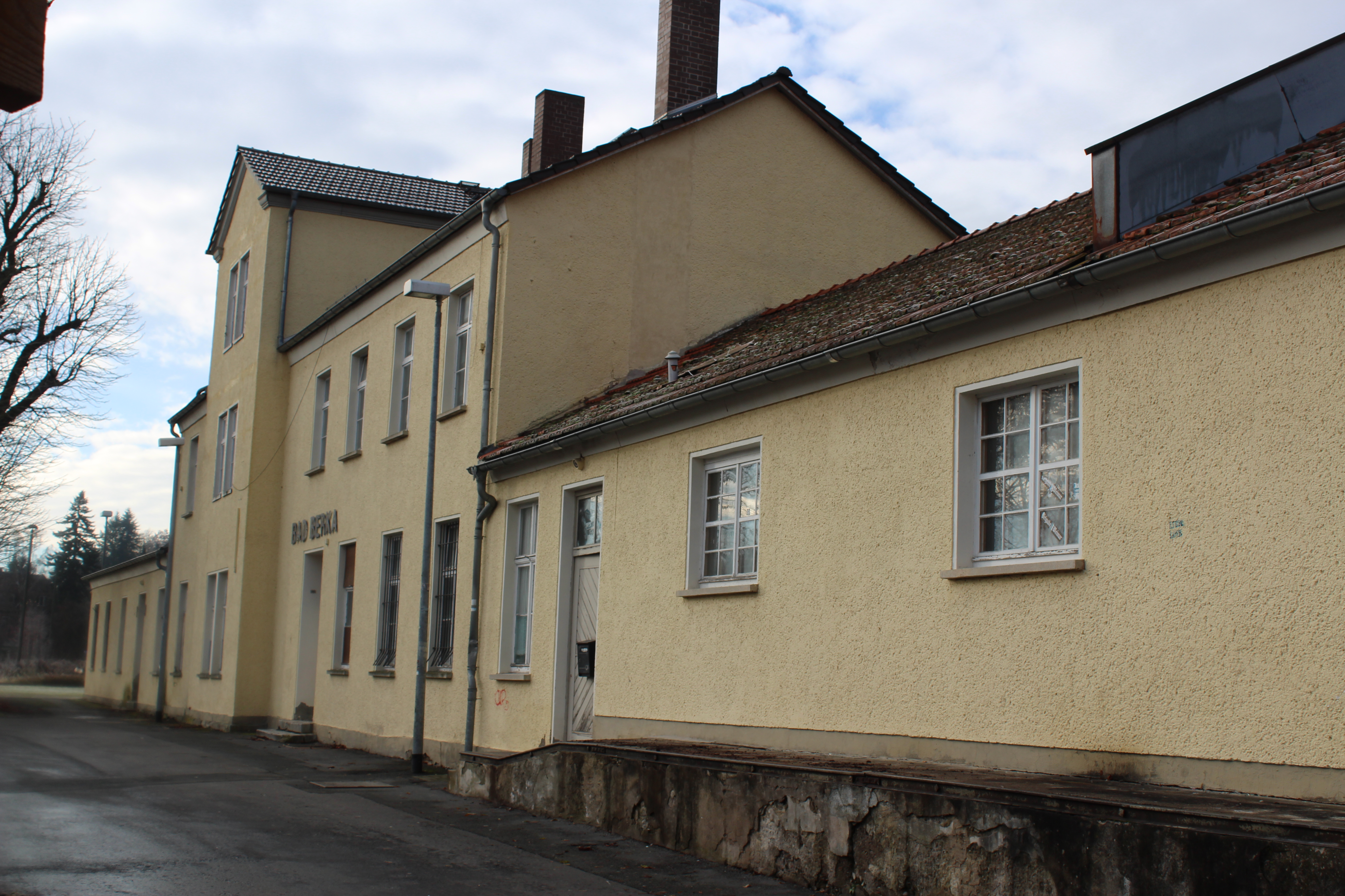 train station Bad Berka, station building street side